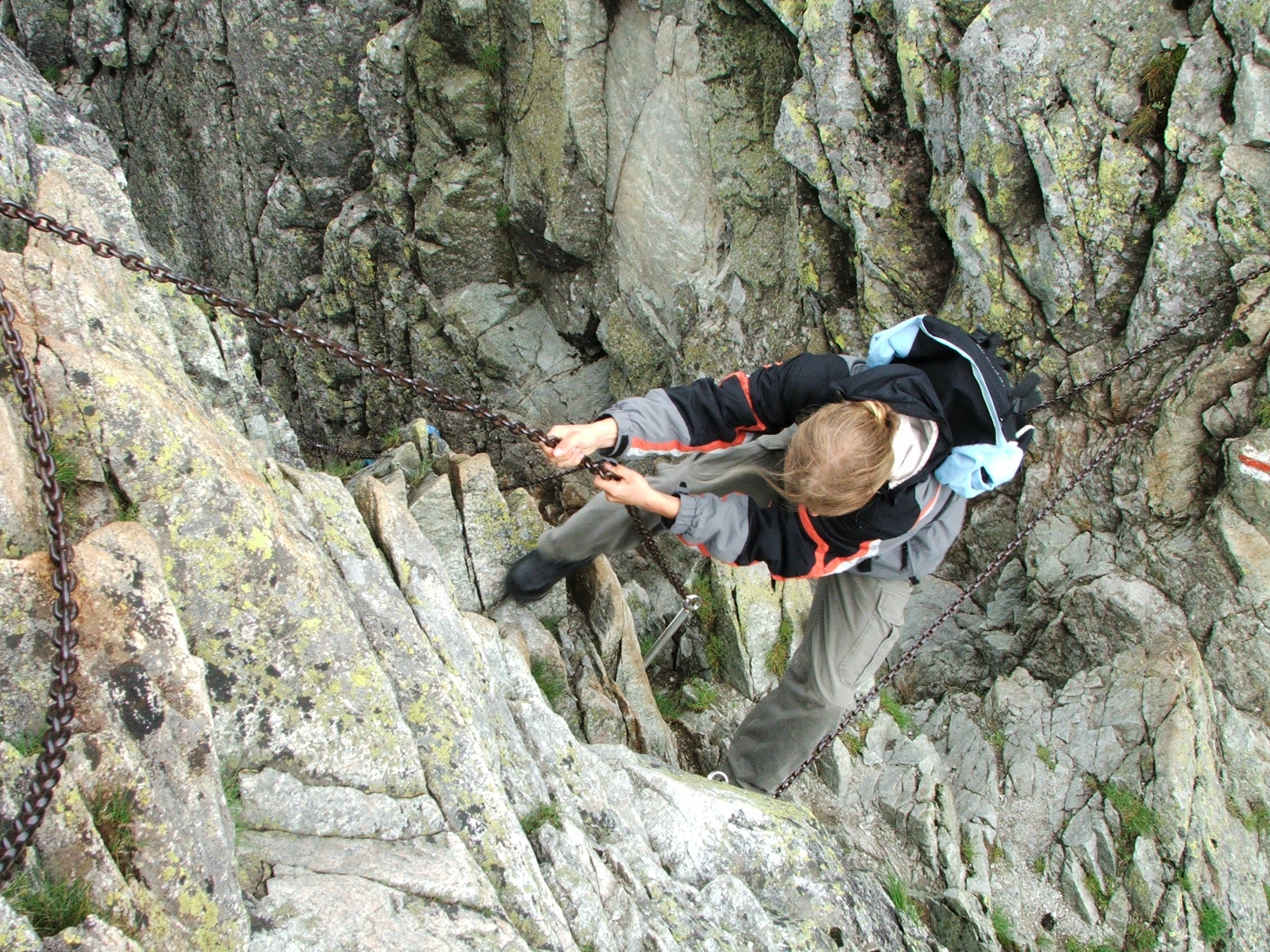 Orla Perć (High Tatra Mountains)